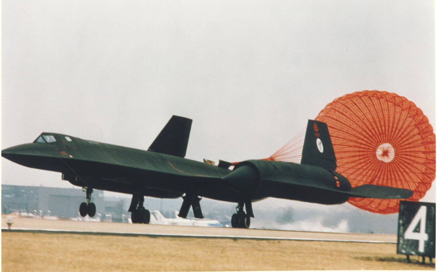 Lockheed SR-71 landing with drag chute (SN 61-7972)